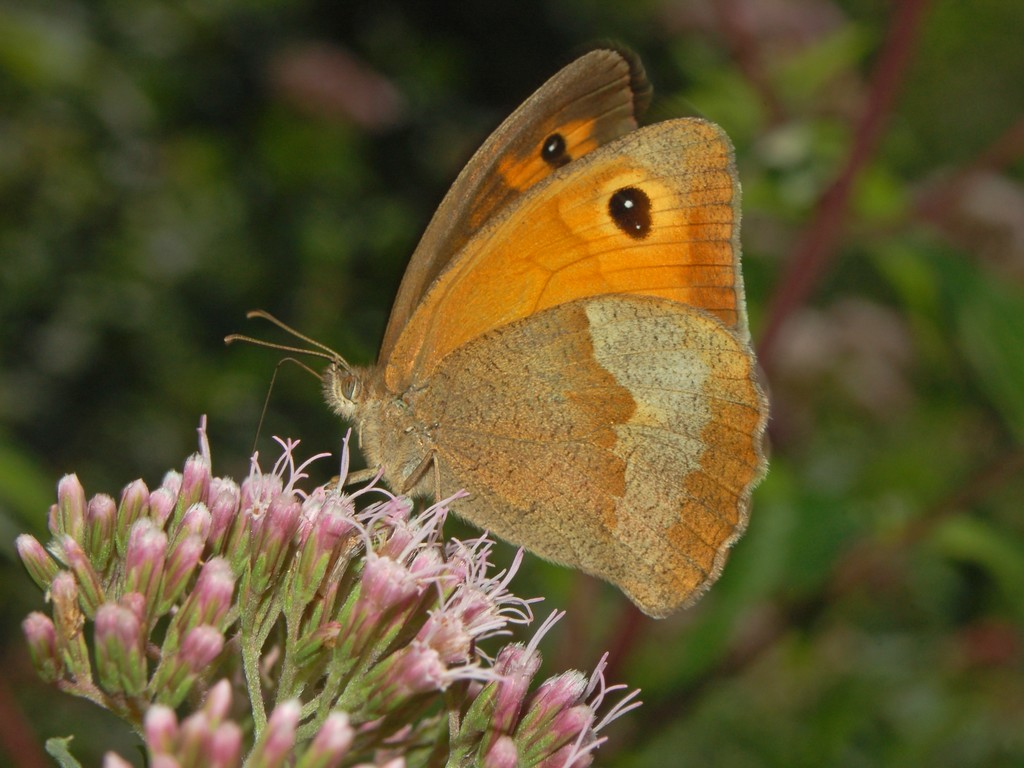 Satyridae - Maniola jurtina